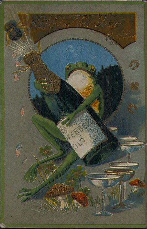 "Happy New Year To You". 1908 postcard with artwork showing a frog holding a bottle of champagne with the cork popping; some champagne glasses at bottom right; small horse shoes and clovers symbolized good luck.